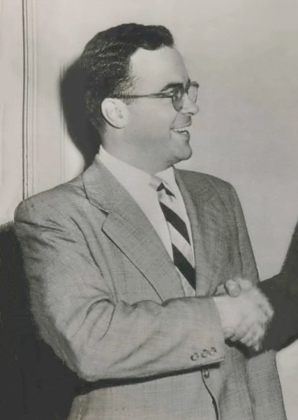 1951 Press Photo Walter Byers is Being Congratulated by Kenneth L. Wilson